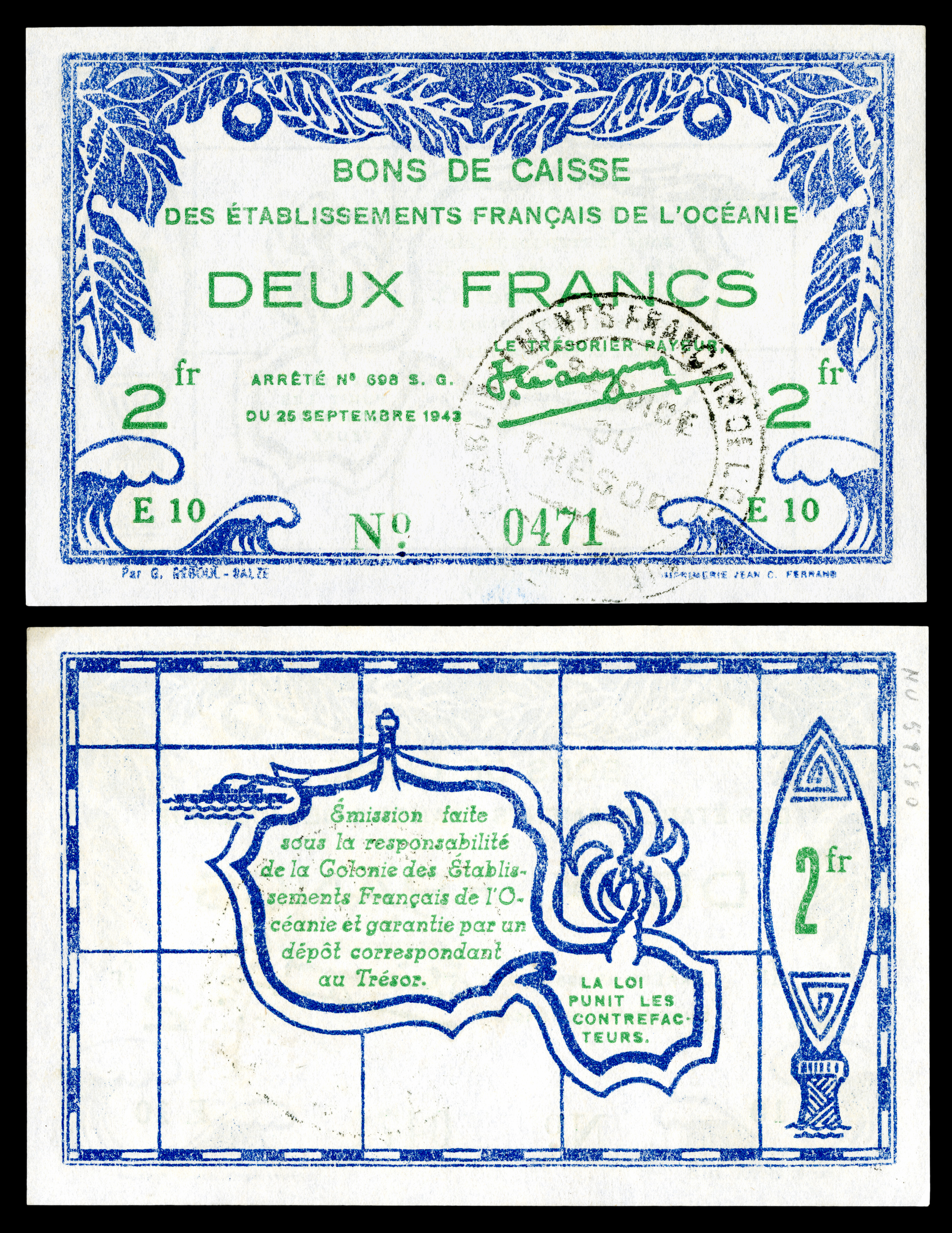 French Oceania, WWII emergency issue currency, 2 francs (1943). The note was printed in Papeete for use in the colony of French Oceania. The note bears the facsimile signature of Jean-Henri Liauzun and measures 111 x 71mm.